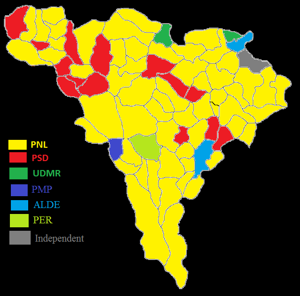 Local elections in Alba County, 2016.